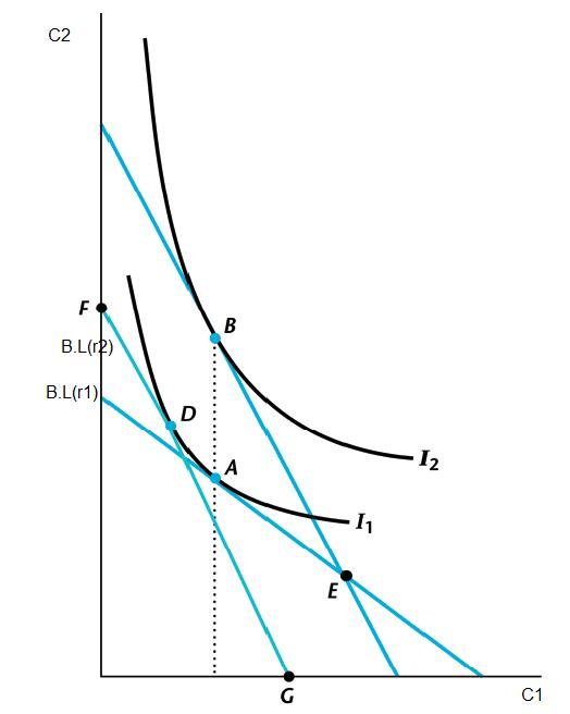 Intertemporal choice made by the saver when interest rate rises.